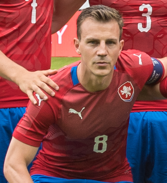 1/6/18St. Poelten, Austria, sports, football, International friendly - Australia vs Czech Republic. Image shows the team of Czech Republic.